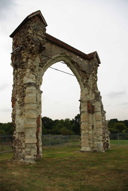 Bicknacre Priory This is all that remains of Bicknacre Priory. Part of the structure had been converted into a house but this was abandoned around 1812, the last arch was saved by former owner. Read all about it at